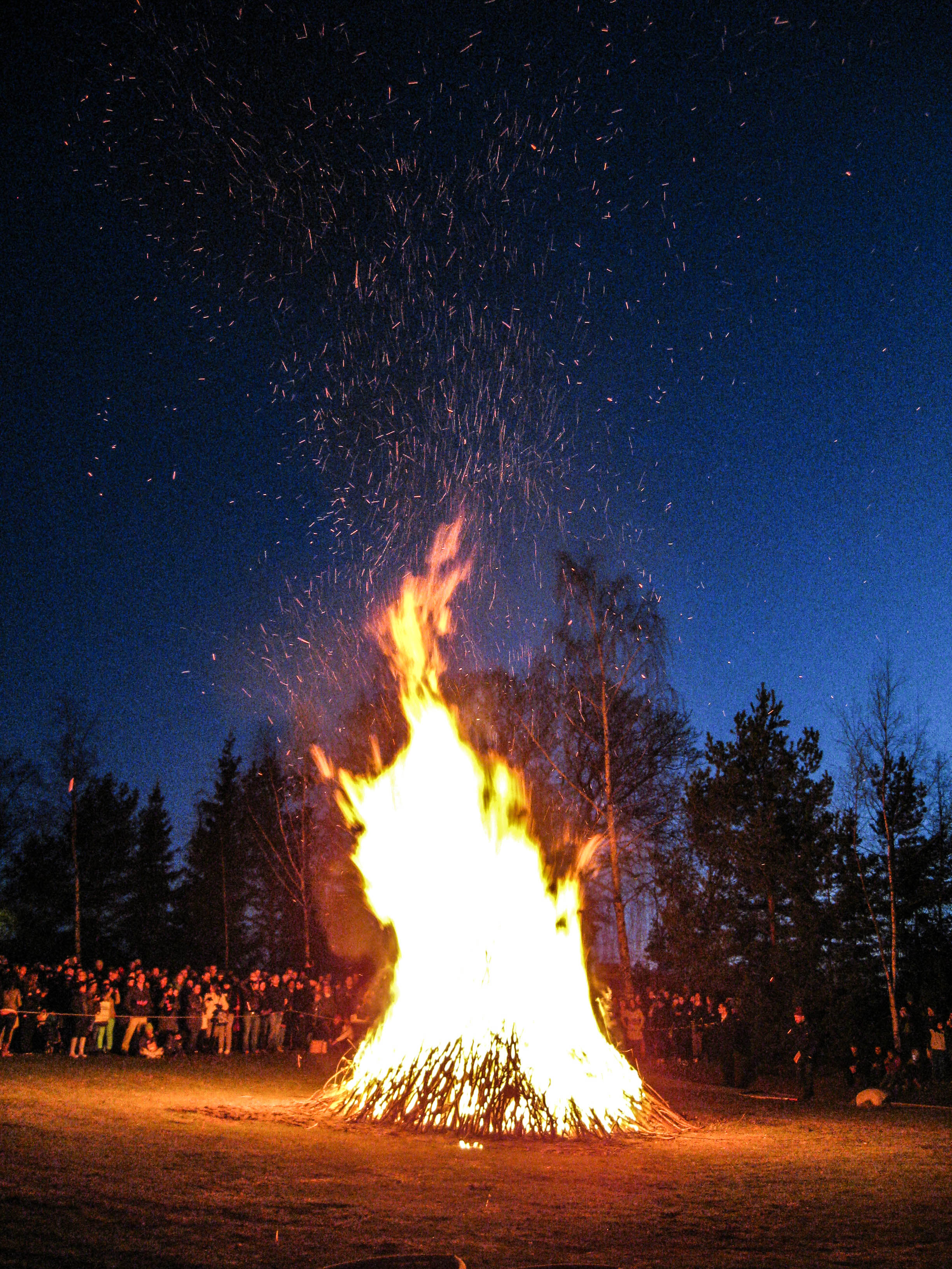 Bonefire at skansen on walpurgis night.